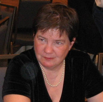 American author Ellen Klages. Taken at the 2007 World Fantasy Convention.